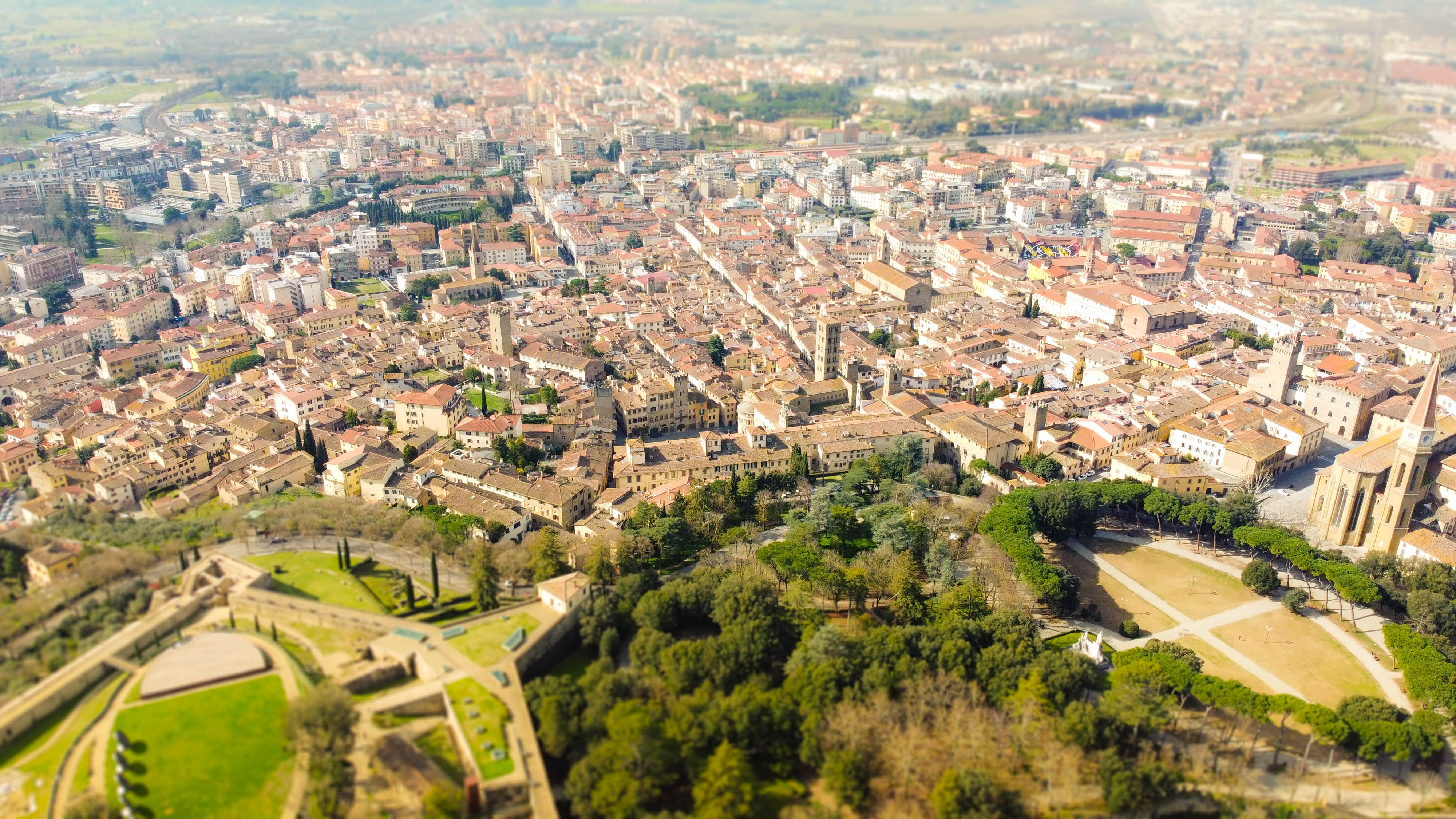 Arezzo City Centre aerial view from behind fortress